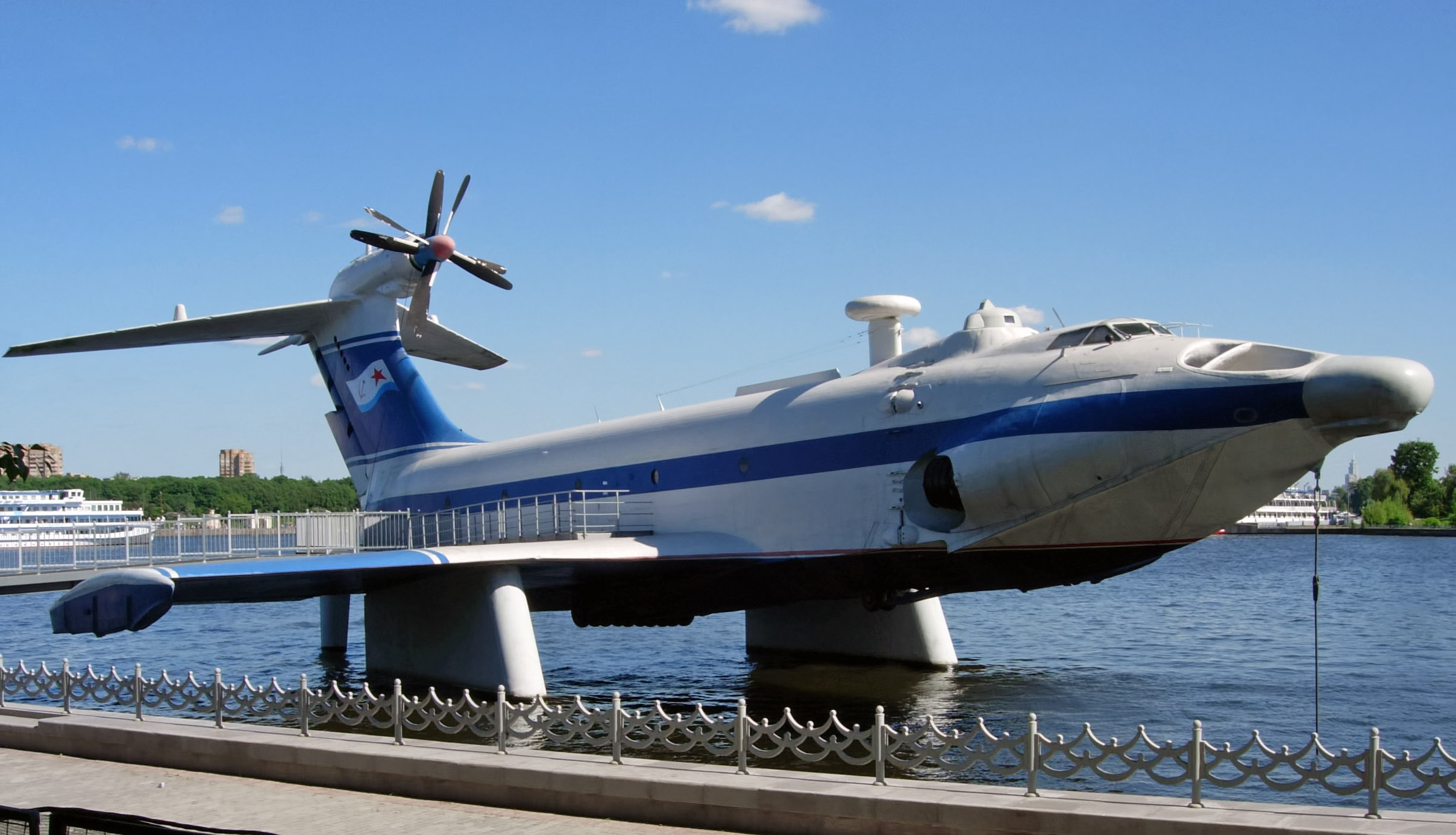 The part of open air branch of Russian Navy museum on river Moskva. The A-90 is not a conventional aircraft, but uses the ground effect to fly a few meters above the surface. Thus it is properly called GEV or ground effect vehicle or ekranoplan in Russian.